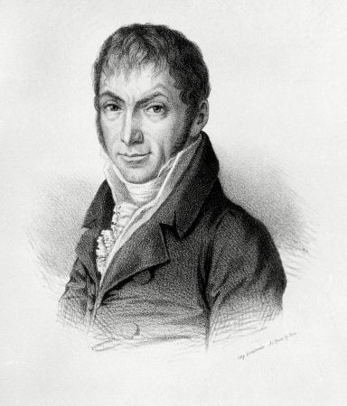 Konstantinos Koumas (1777-1836): Greek scholar